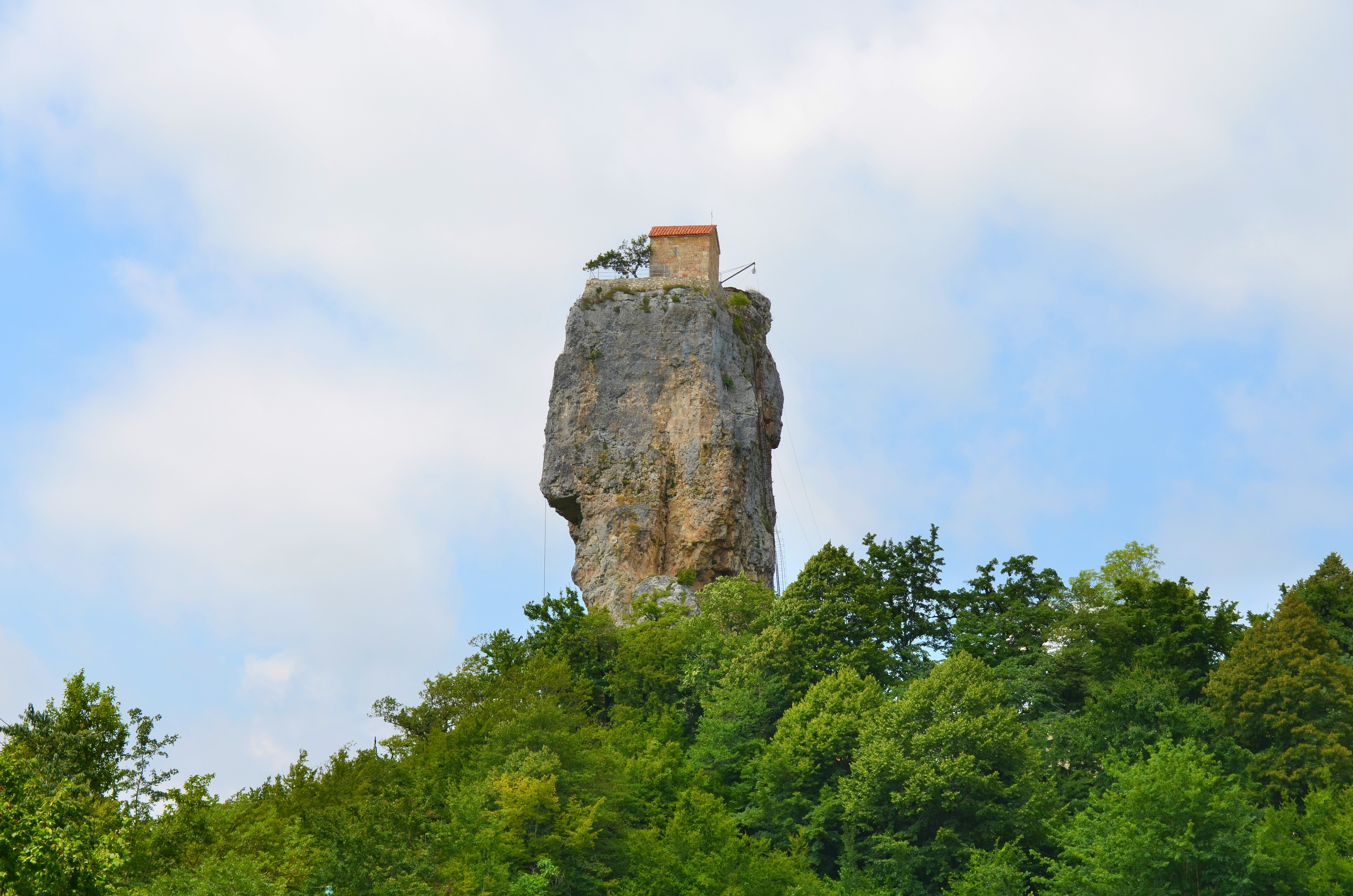 Katskhi pillar with Maximus the Confessor chapel on top, seen from the south